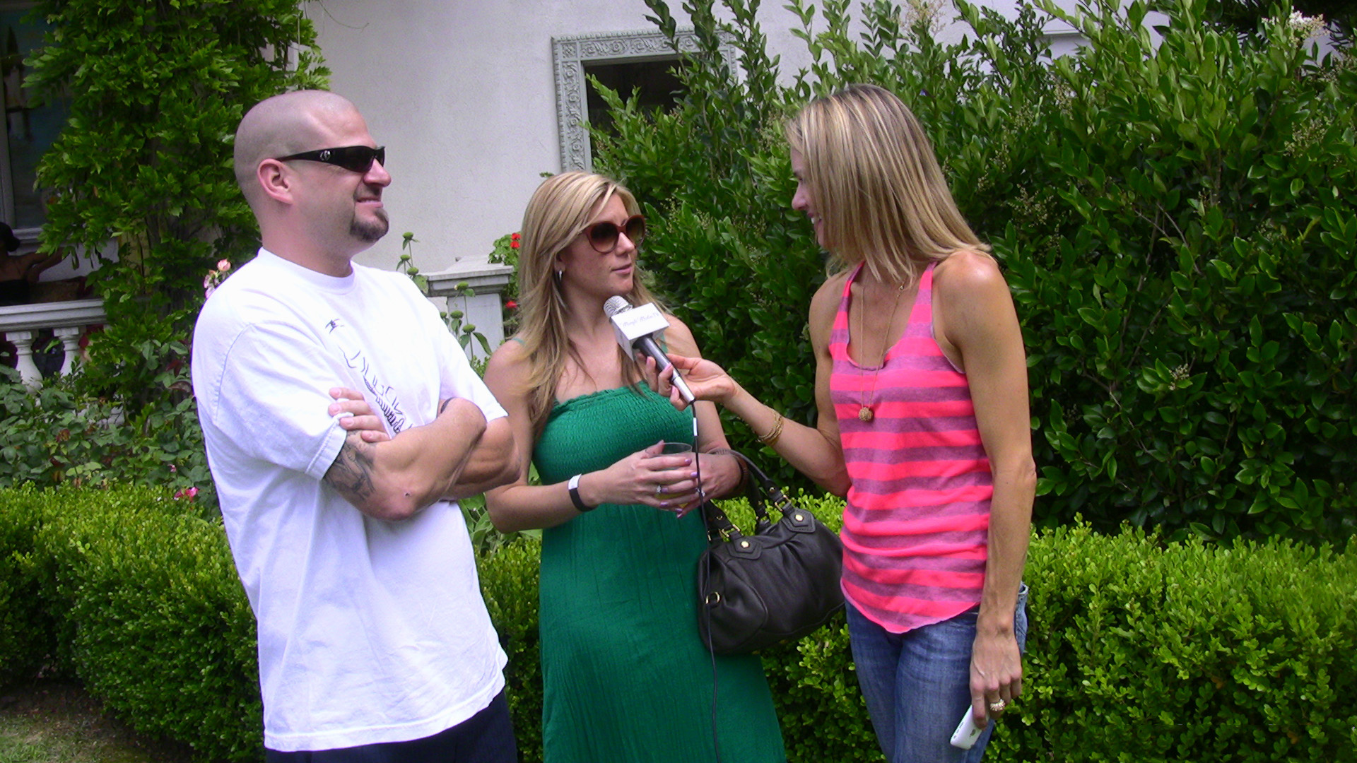 Jarrod Schulz and his business partner/wife Brandi Passante, from the TV show Storage Wars, at the MTV Movie Awards Eco Lounge